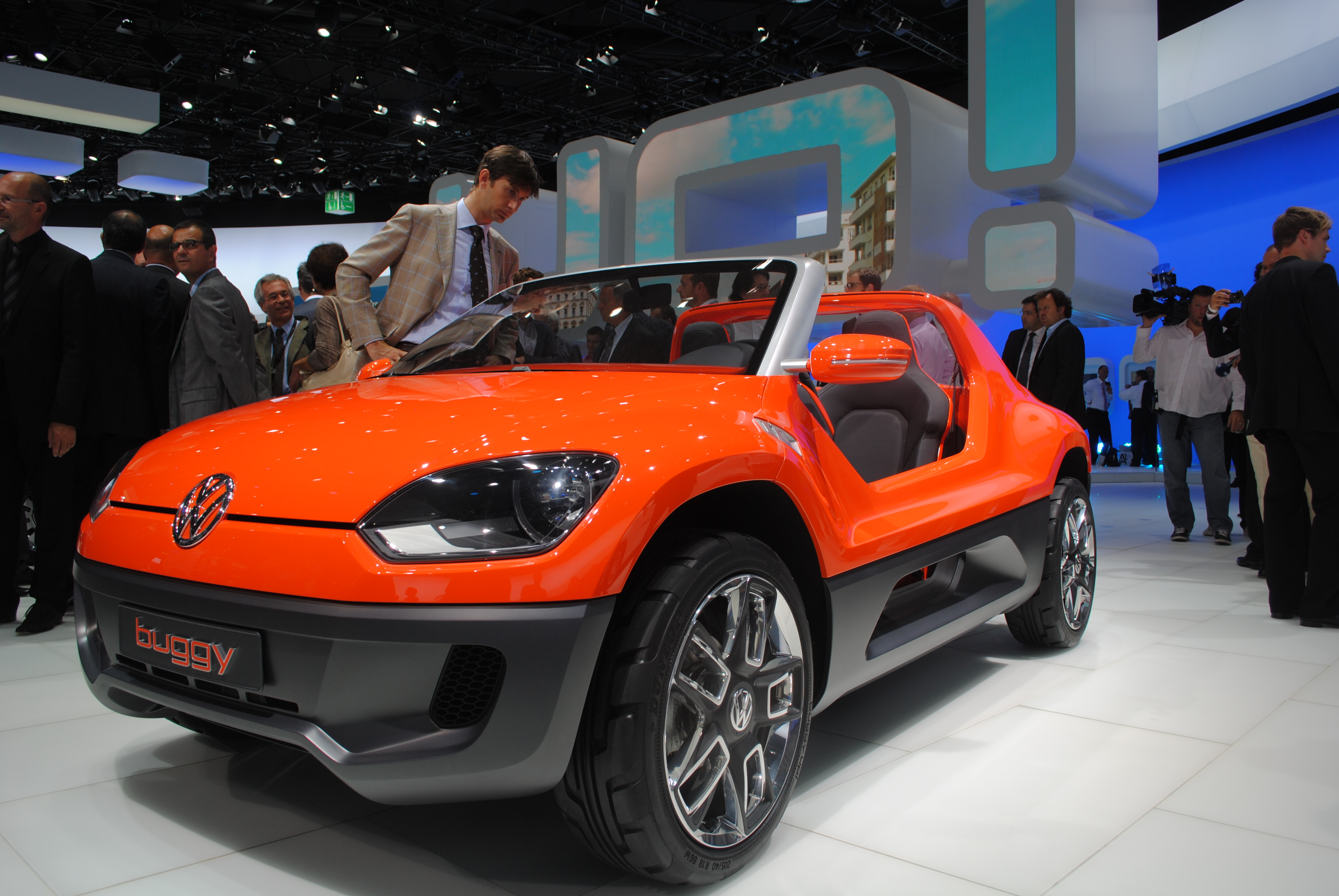 More photos and info - and